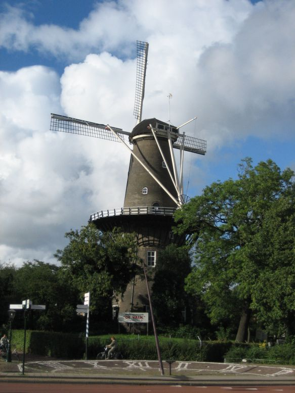 Imagen del molino-museo Molen De Valk, uno de los molinos de la ciudad de Leiden (Países Bajos), tomada desde la calle 2e Binnenvestgracht, con una vista de un reloj de sol siatuado en el suelo. Foto tomada por Enrique Boira Freire (usuario Enboifre), el 10 de agosto del 2006. Image of the wind mill-museum Molen De Valk, one of the wind mills from the city of Leiden (The Netherlands), taken from the street 2e Binnenvestgracht, with a view of a sundial placed on the ground. Picture taken by Enrique Boira Freire (user Enboifre), on the 10th August 2006.